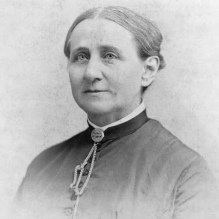 Portrait of Antoinette Louisa Brown Blackwell